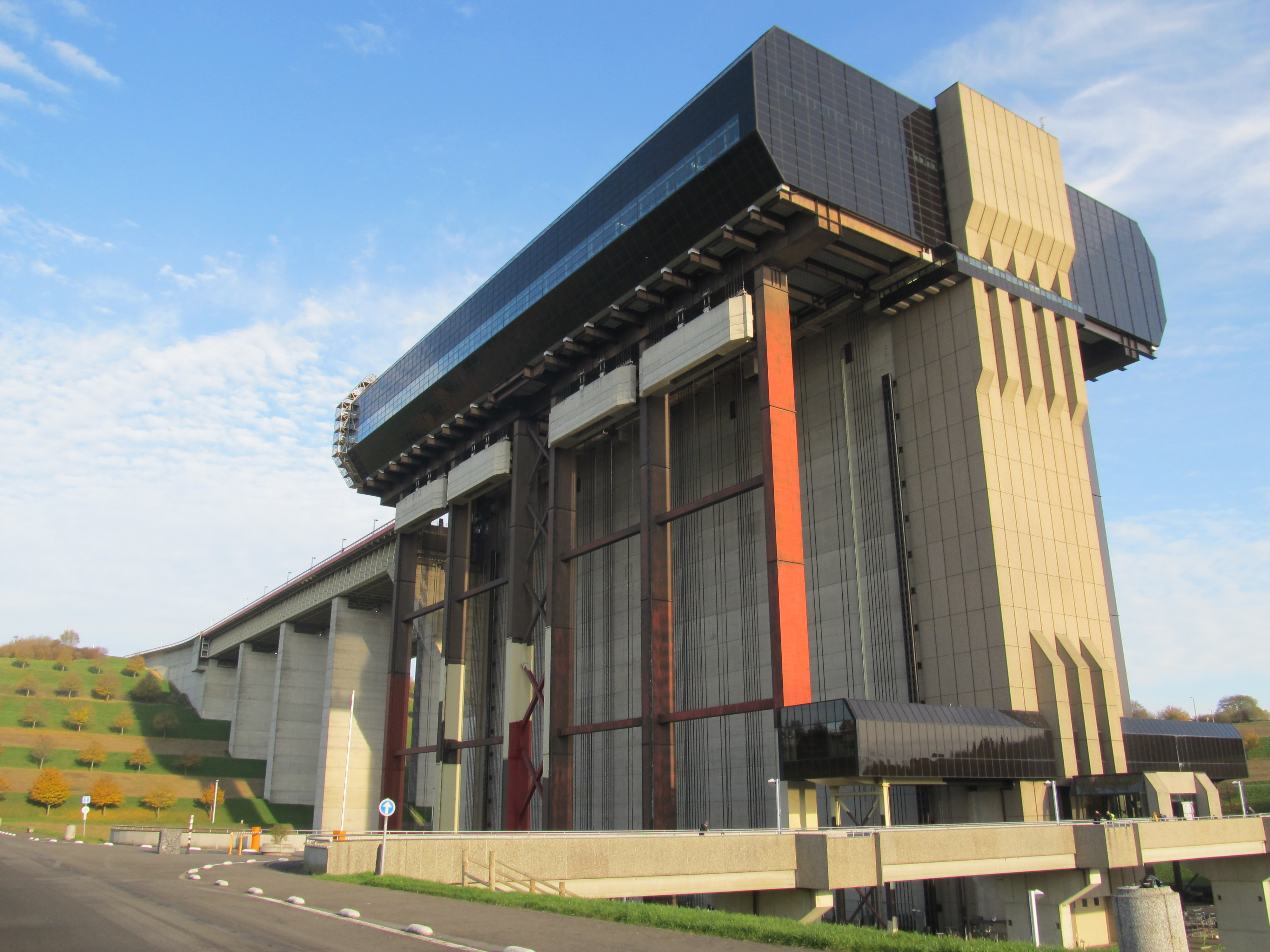 Strépy-Thieu boat lift on the Canal du Centre in Belgium.